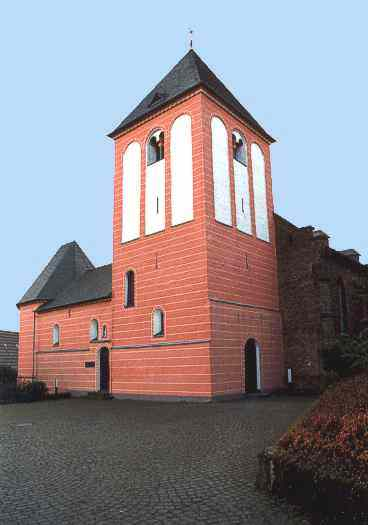 Church St. Jakobus in Alfter-Gielsdorf, Germany.